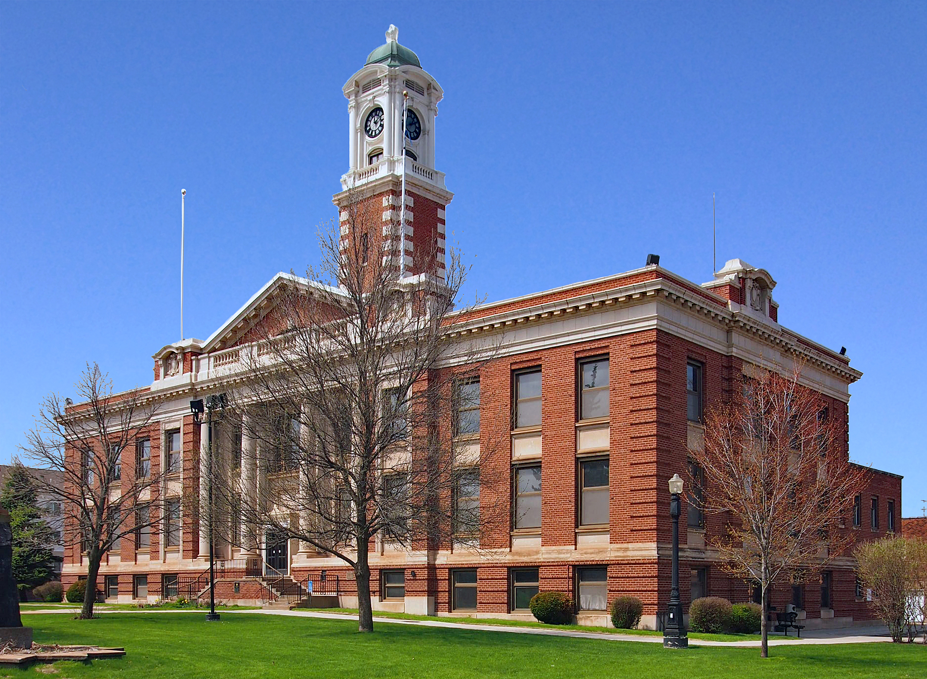 Hibbing City Hall, Hibbing, Minnesota, USA. Viewed from the southeast.